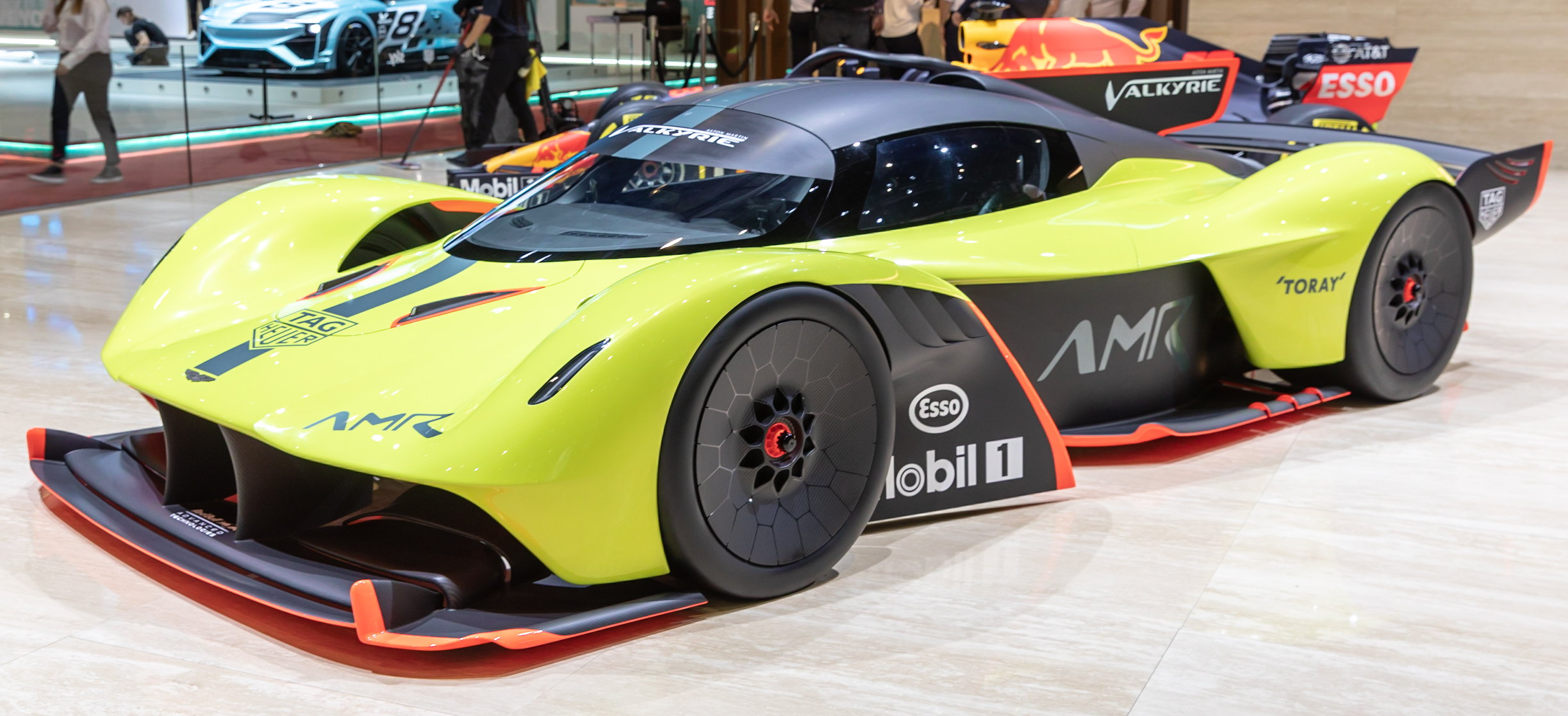 Aston Martin Valkyrie AMR Pro at Geneva International Motor Show 2019, Le Grand-Saconnex